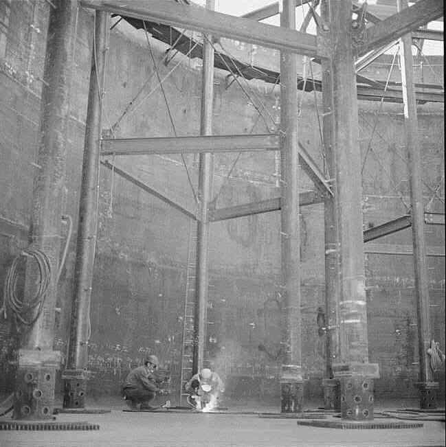 one of the 177 nuclear waste storage tanks at the Hanford site